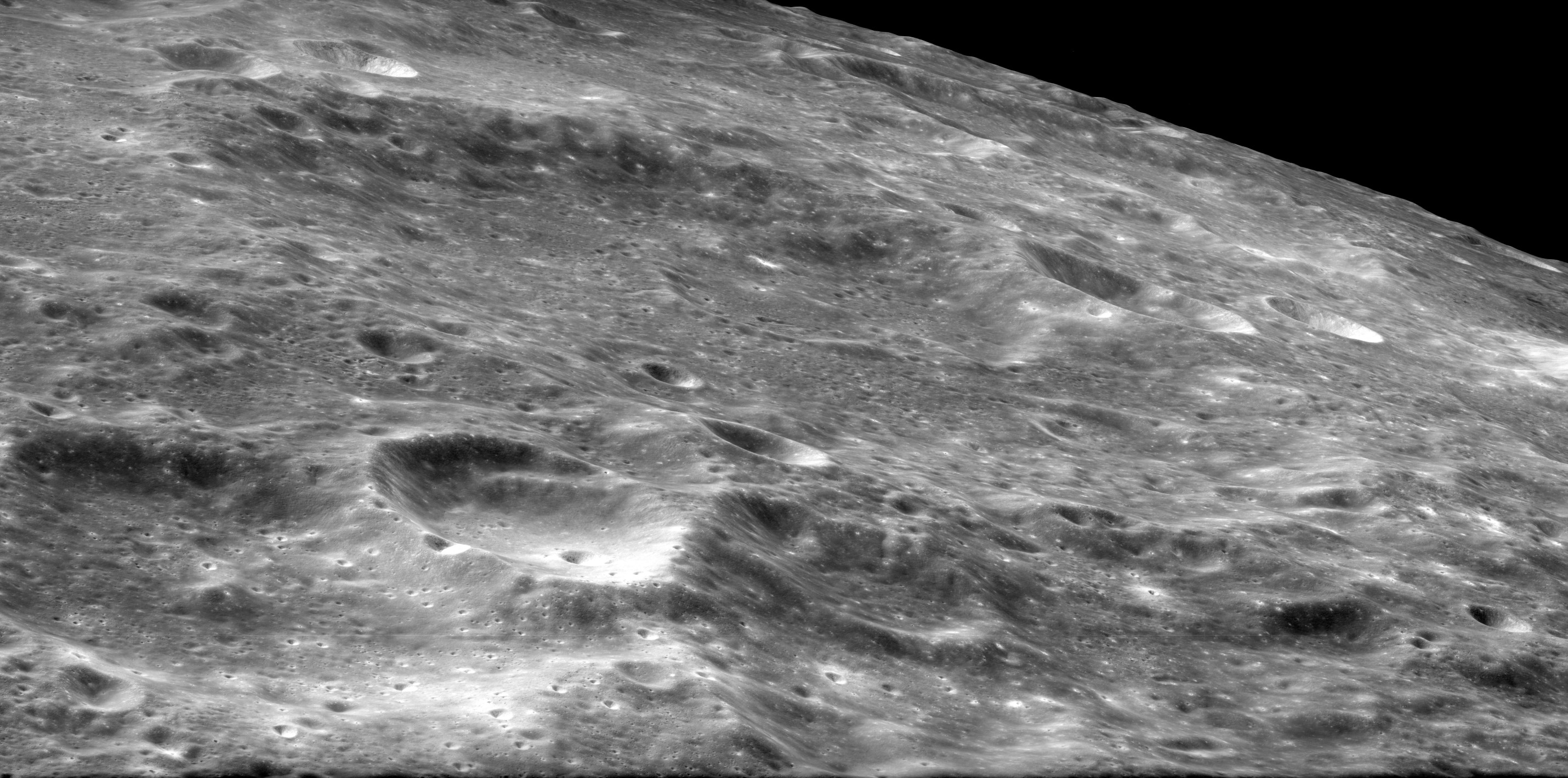 Oblique view of Wyld crater, facing west, on the moon. Taken by Apollo 17 panoramic camera.